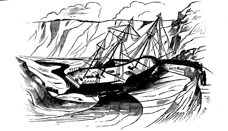 An illustration of the new paddle steamer Demerara stranded in the River Avon near Bristol, enroute to the Clyde for engine fitting. Published in the Bristol Mercury of 15 November 1851, issue 3217. 2318 tons, built by Patersons's of Bristol.